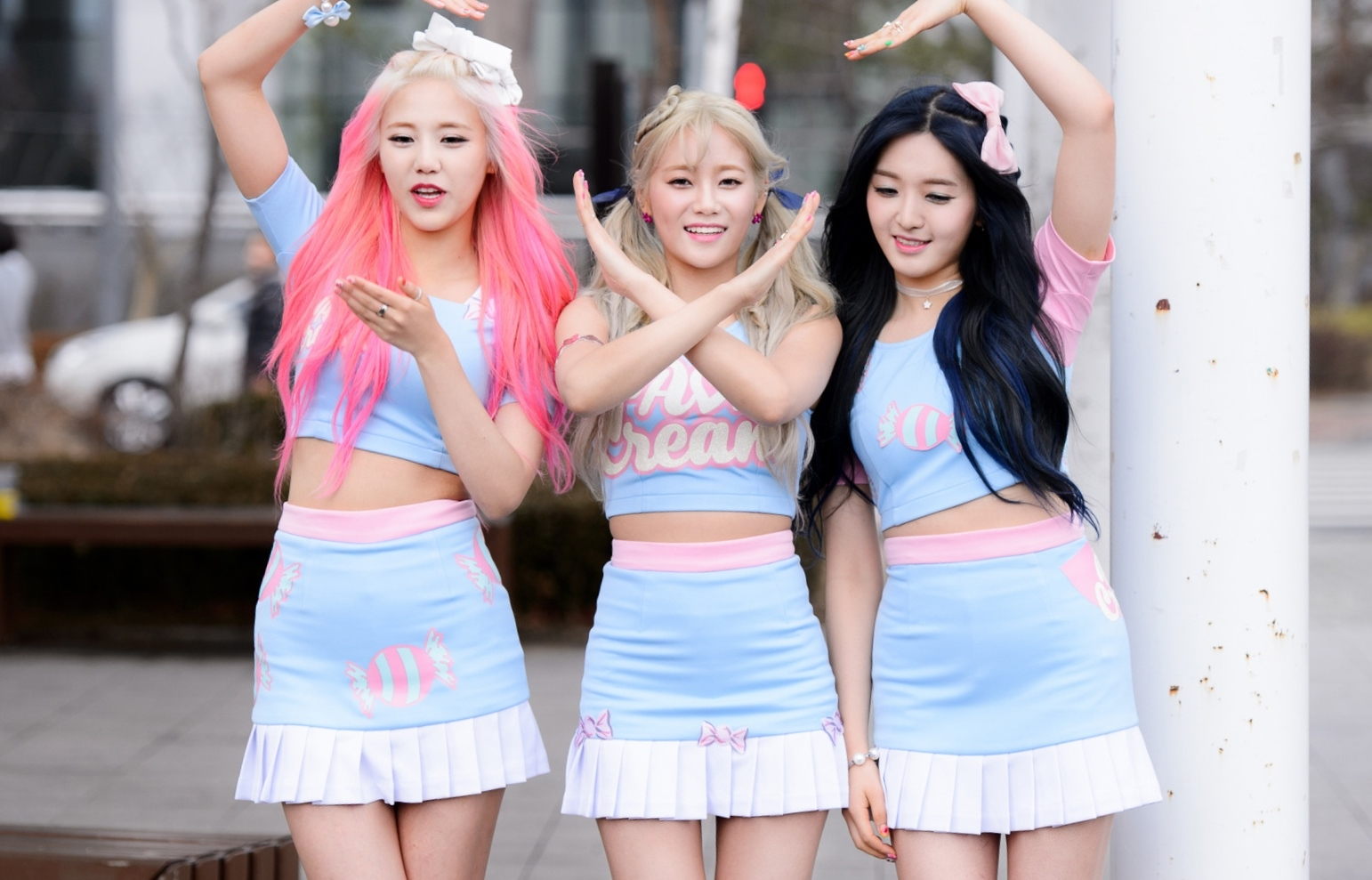 AOA Cream at a mini fan meeting on Februay 13, 2016.